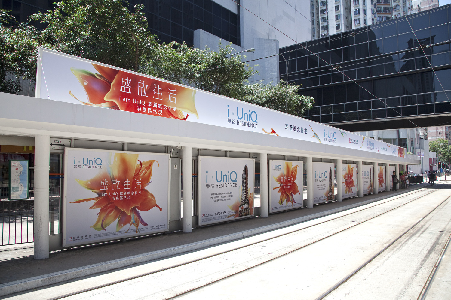 i.UniQ Residence Tram station 2